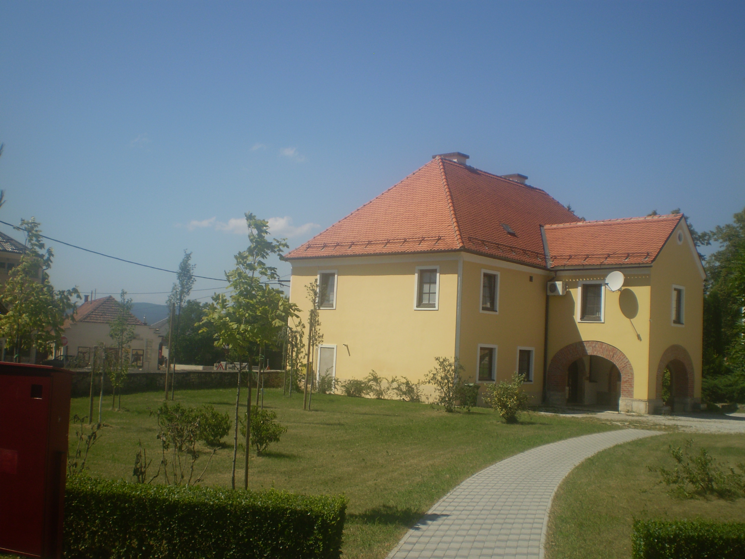 Photo of Parsonage in Ivanec, Croatia.